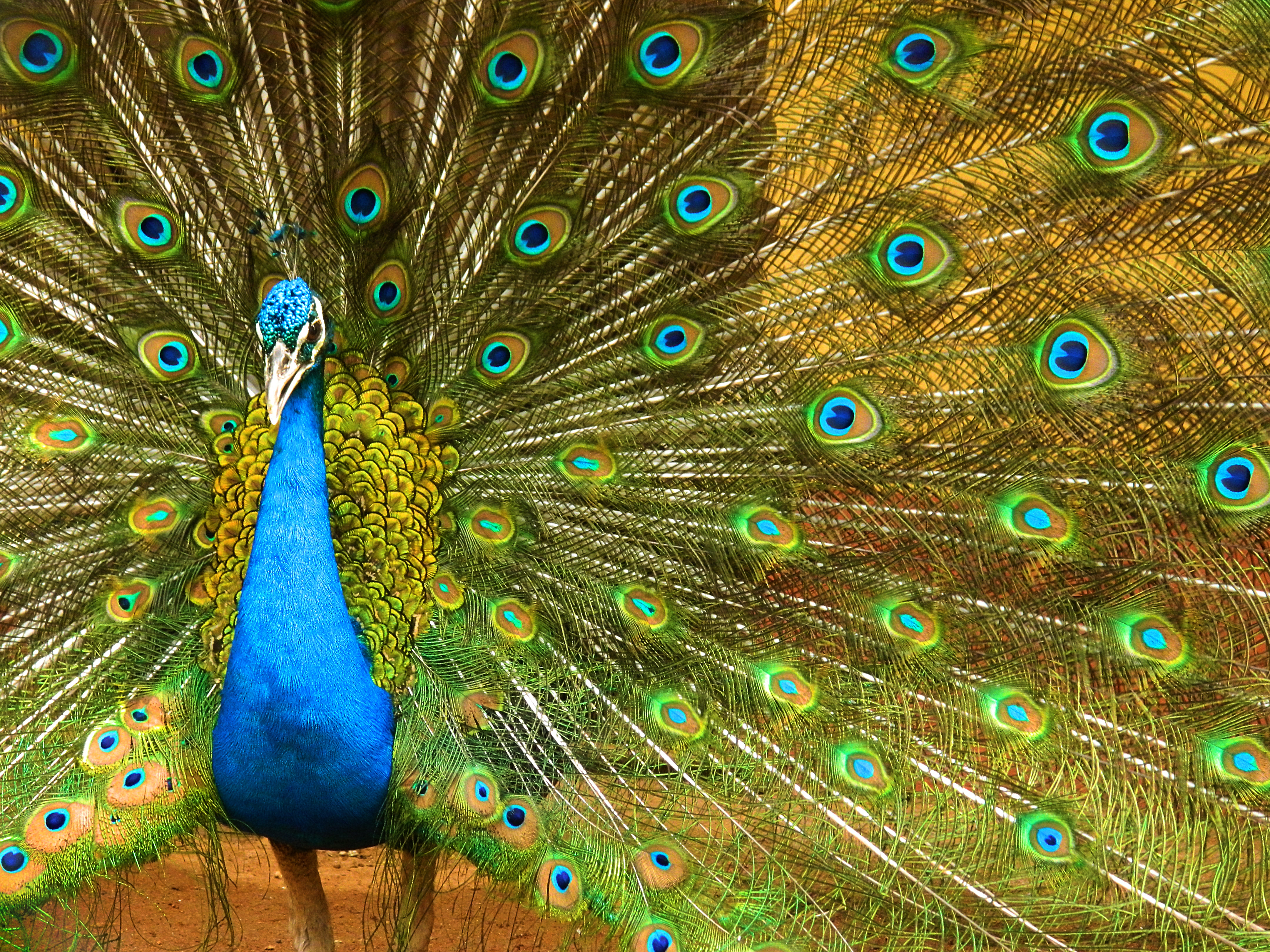 The elongated upper tail of an Indian Peafowl.